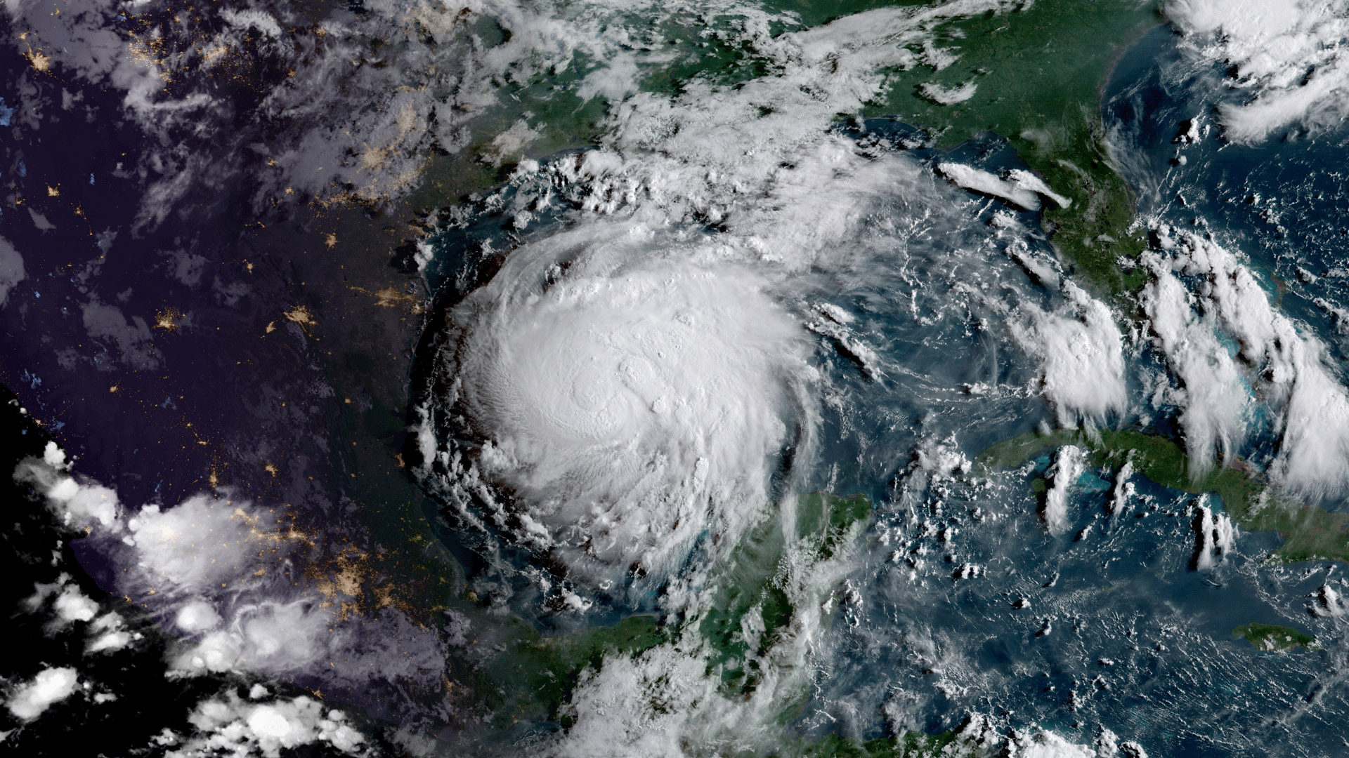 On Aug. 24, the National Hurricane Center noted that Hurricane Harvey was quickly strengthening and is forecast to be a category 3 Hurricane when it approaches the middle Texas coast. In addition, life-threatening storm surge and freshwater flooding expected. On Aug. 24, many warnings and watches were in effect: A Storm Surge Warning is in effect from Port Mansfield to San Luis Pass Texas. A Storm Surge Watch is in effect from south of Port Mansfield Texas to the mouth of the Rio Grande River and from north of San Luis Pass to High Island, Texas. A Hurricane Warning is in effect from Port Mansfield to Matagorda, Texas. A Tropical Storm Warning is in effect from north of Matagorda to High Island, Texas and south of Port Mansfield, Texas to the Mouth of the Rio Grande. A Hurricane Watch is in effect from south of Port Mansfield, Texas to the Mouth of the Rio Grande. A Tropical Storm Watch is in effect from south of the mouth of the Rio Grande to Boca de Catan, Mexico. GOES-16 captured this geocolor image of Tropical Storm Harvey in the Gulf of Mexico this morning, August 24, 2017. Geocolor imagery enhancement shown here displays geostationary satellite data in different ways depending on whether it is day or night. This image, captured as daylight moves into the area, offers a blend of both, with nighttime features on the left side of the image and daytime on the right. Credit: NOAA/NASA GOES Project